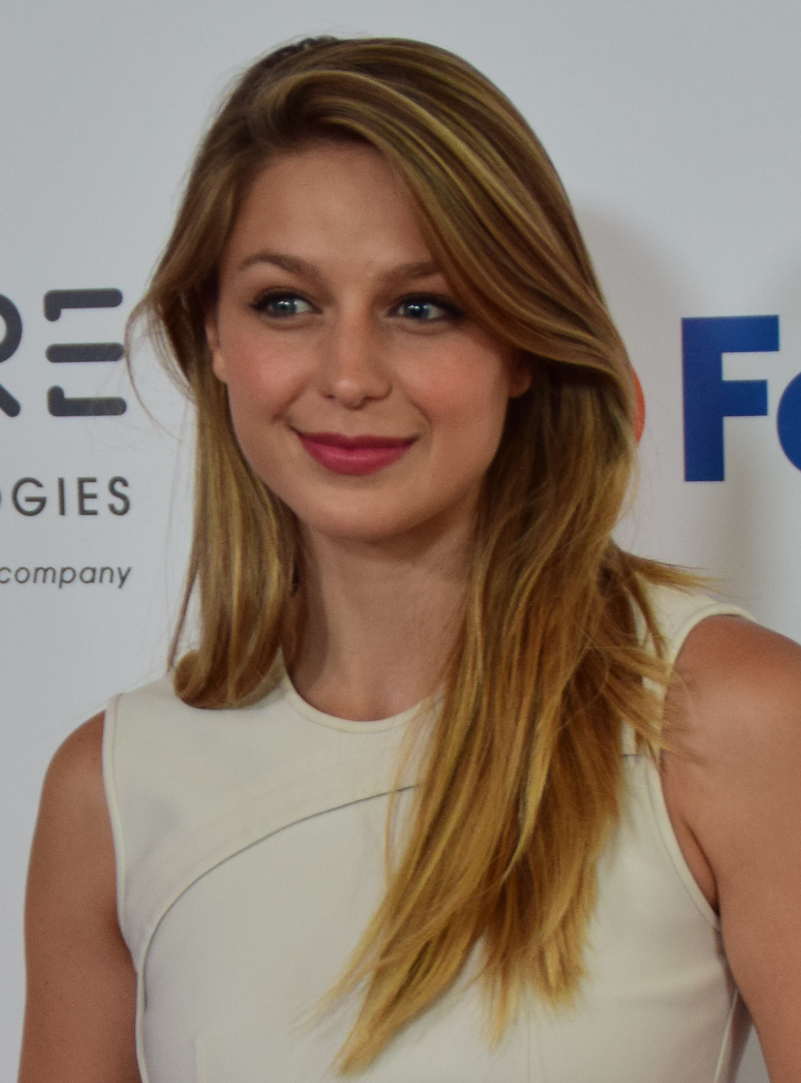 Mingle Media TV and our Red Carpet Report team with host, Cathy Kelley, were invited to once again come out to cover the arrivals for the Thirst Project’s 6th Annual Thirst Gala hosted by Pauley Perrette (NCIS) at the Beverly Hilton Hotel. The event was sponsored by Follett, Supporters of The Thirst Project Come Together to Honor Those That Have Made a Difference in the World Water Crisis. Honored at the event Wyck Godfrey (Producer) - Pioneering Spirit Award Connor Franta (Internet Personality, Author, and Entrepreneur) - Governor's Award Guests were treated to special performances by Christina Perri and Katy Tiz. About the Thirst Project. Almost 1 billion people on the planet do not have access to safe, clean water, and 4,100 kids under the age of five will die today from drinking dirty water. Thirst Project is the world's leading YOUTH water activism organization. This movement of high school and college students builds freshwater wells in developing nations and impoverished communities to provide people with safe, clean water. Thirst Project is a nonprofit organization that travels across the United Statesspeaking at schools to educate students about the global water crisis and challenges them to fundraise to build wells. 100% of all public donations go directly to funding freshwater wells on the ground. We are really unique in that we have a private group of donors who fund 100% of the organization's "Overhead" so we can make this guarantee to the public. In just 6 years, Thirst Project has activated more than 300,000 students, on 400 campuses across the United States, who have raised $8Million, 100% of which has been used to give more than 280,000 people in 13 countries safe, clean water.